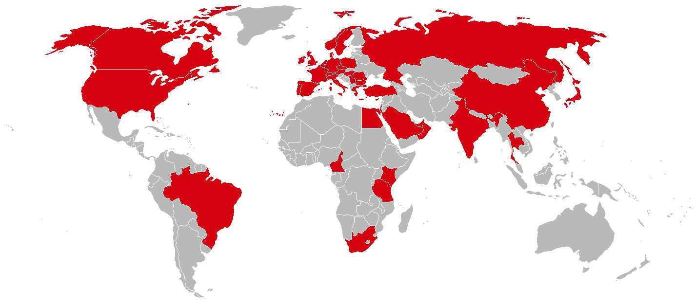 Swiss Routemap